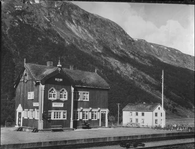 Drivstua railway station on Dovrebanen, Oppdal, Norway.